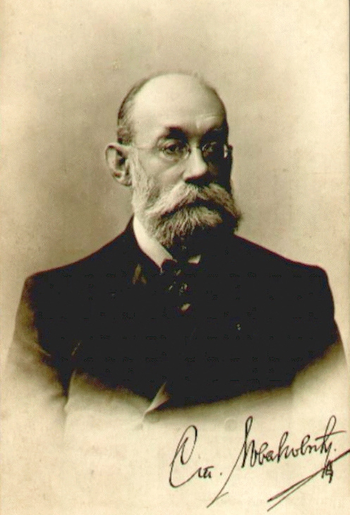 Stojan Novaković, político y primer ministro de Serbia.